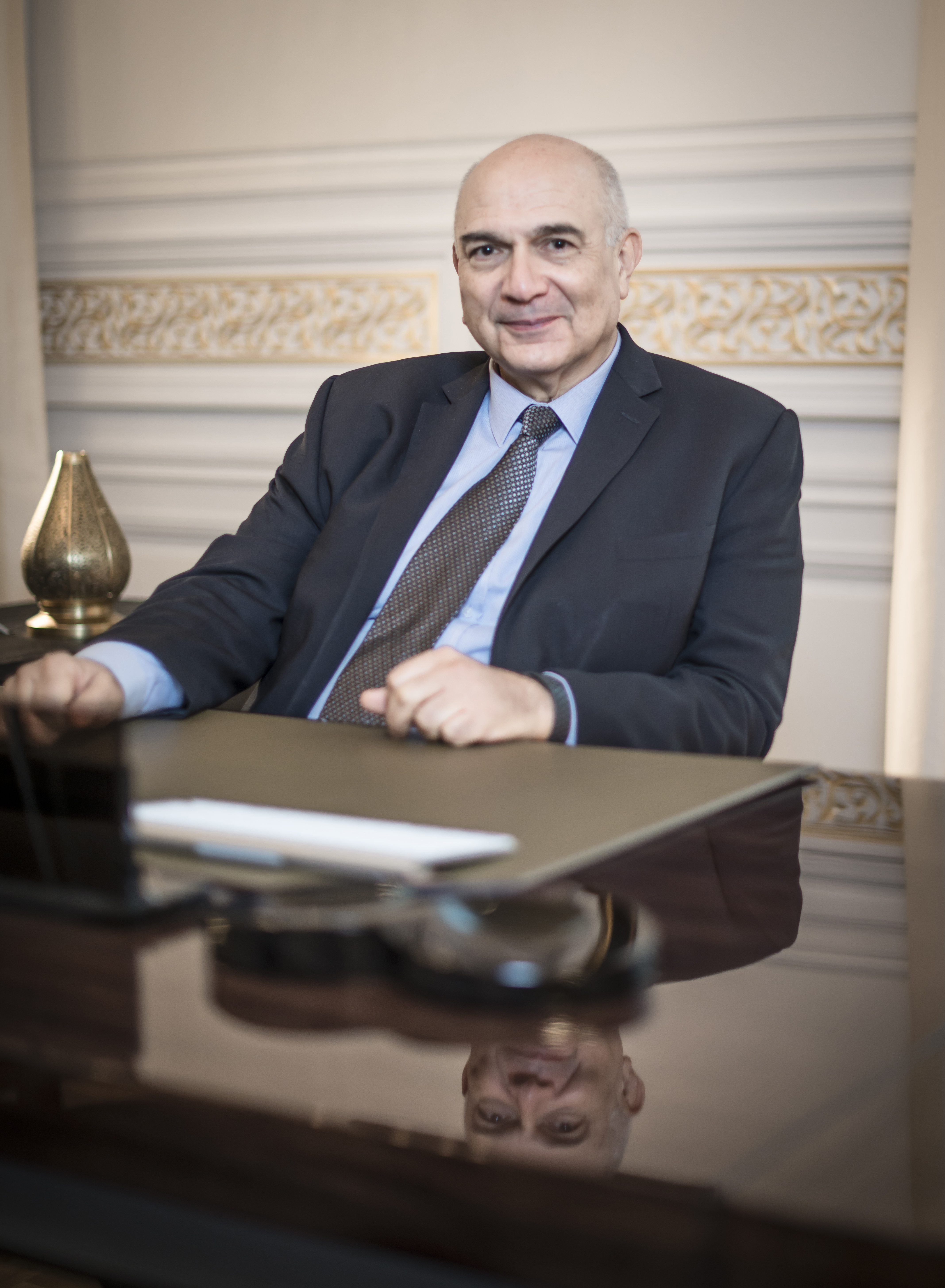 Official Portrait of Mostafa Terrab